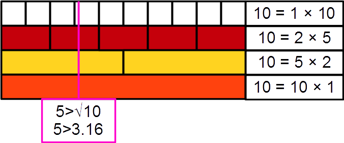 Showing, through Cuisenaire rods, that 10 is an unusual number.